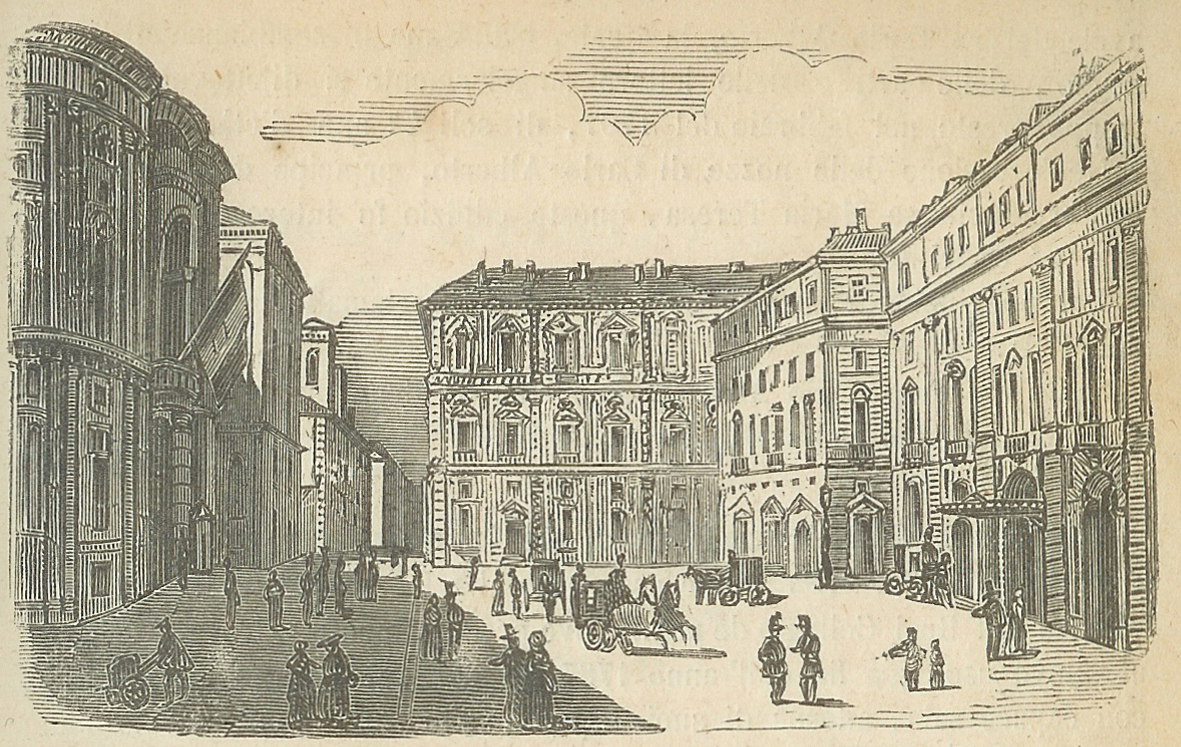 Engraving of Turin's Piazza Carignano: Palazzo Carignano, Palace of the Accademia delle Scienze, Carignano Theater.